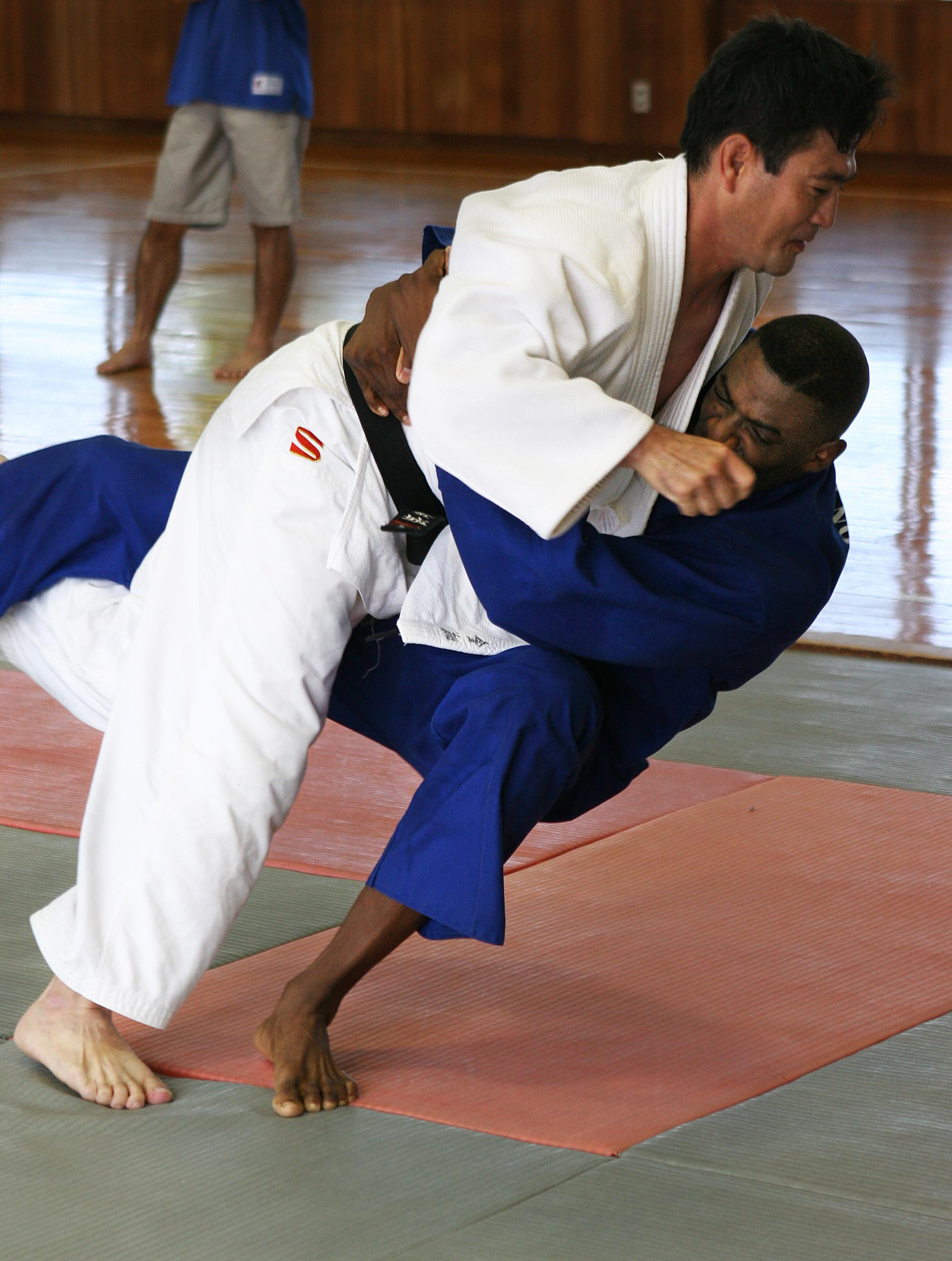 GINOWAN CITY, OKINAWA, Japan – Shinya Kinjo (left) and 1st Lt. Tim A. Martin (right) go down to the ground during a Judo session at the Ginowan City Police Station Sept. 7. Kinjo is a Ginowan City police officer and Martin is the officer in charge of the Crime Prevention Unit at Camp Foster’s Provost Marshal’s Office.